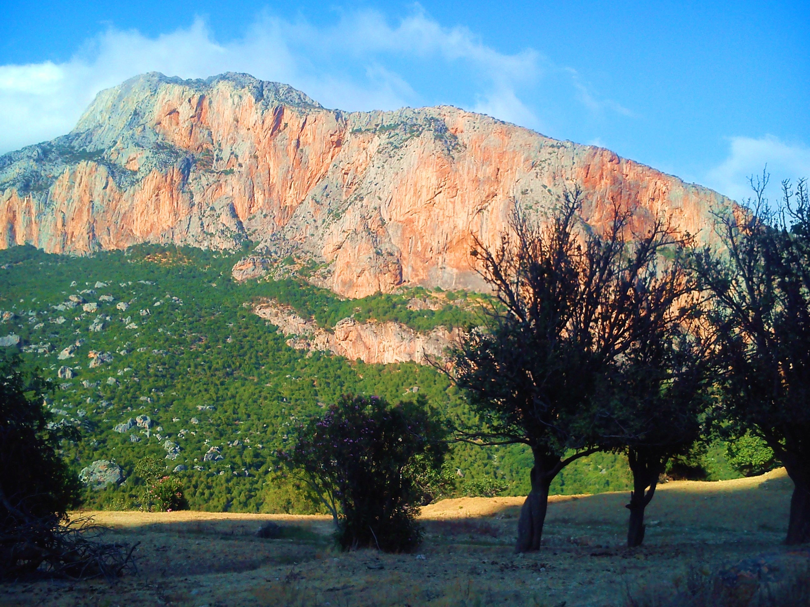 mountain akchour_morocco